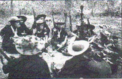 Photo of communist troops meeting in base camp- 1967 Archives of United States Joint U.S. Public Affairs Office (JUSPAO), Republic of South Vietnam: 1967